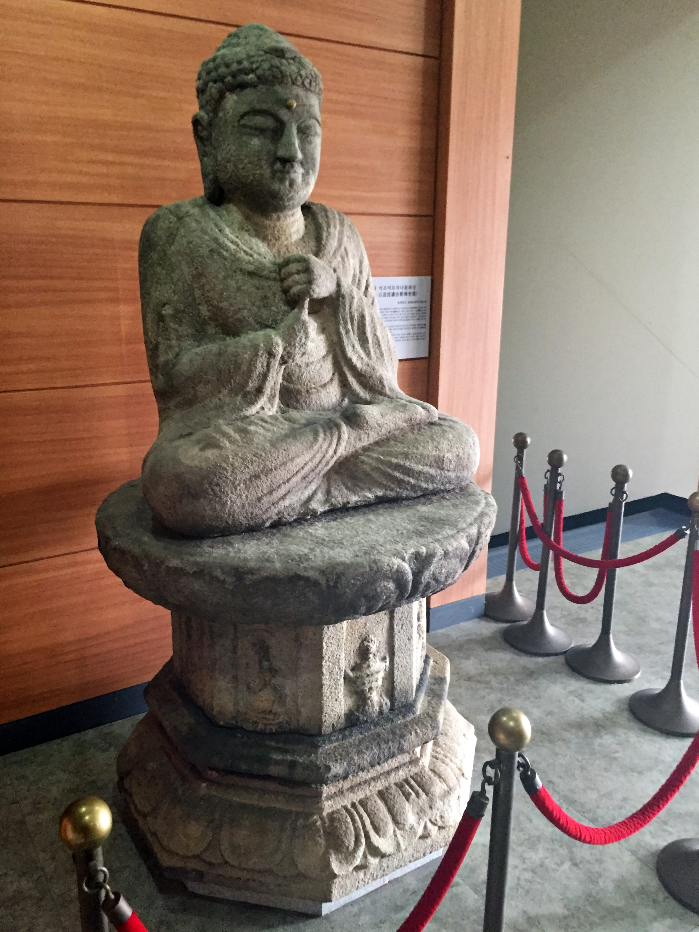 Stone Seated Vairocana Buddha from Yongamsa Temple, Cheongju in South Korea